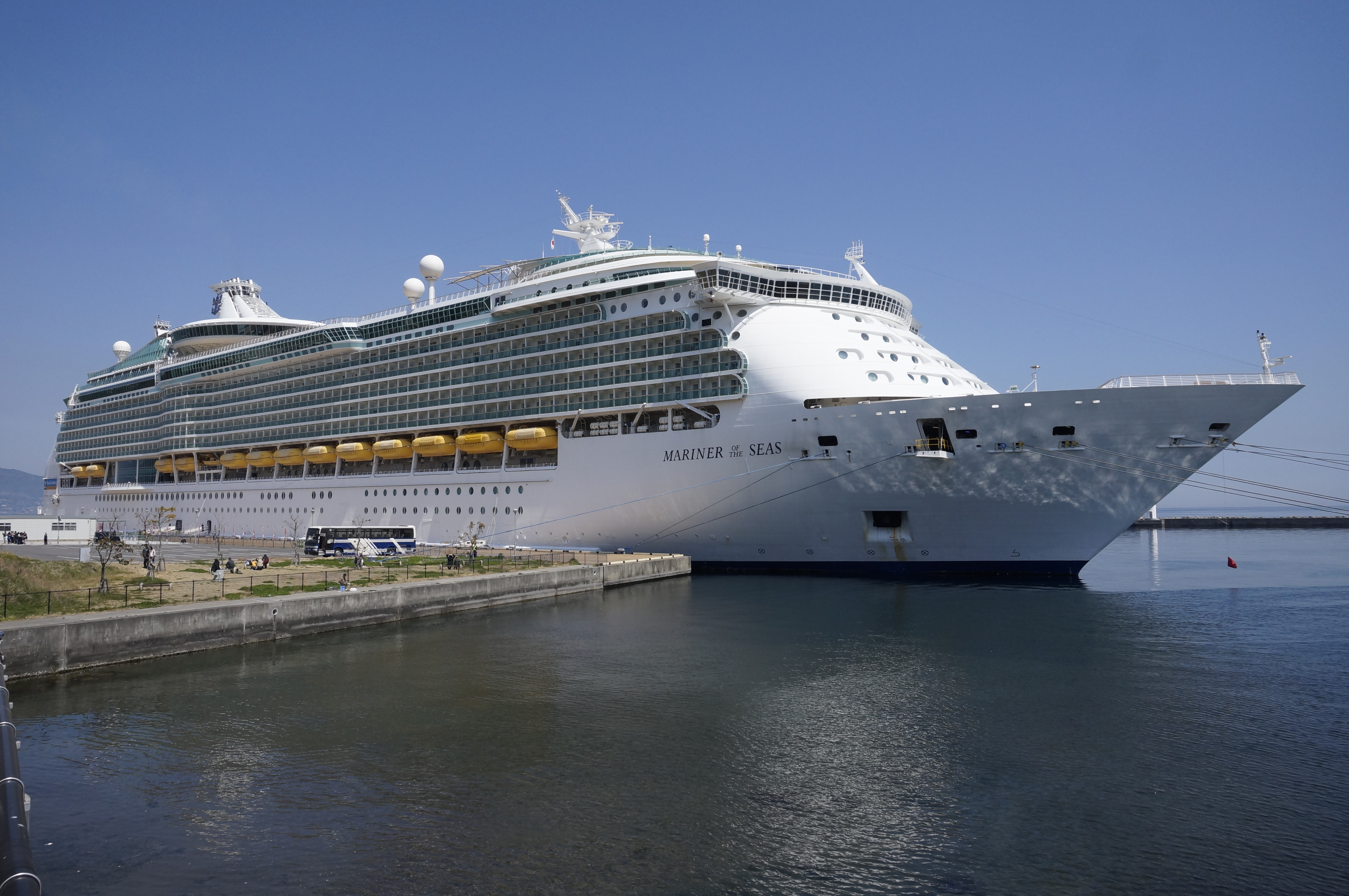 Mariner of the Seas at the Port of Beppu Pier #4